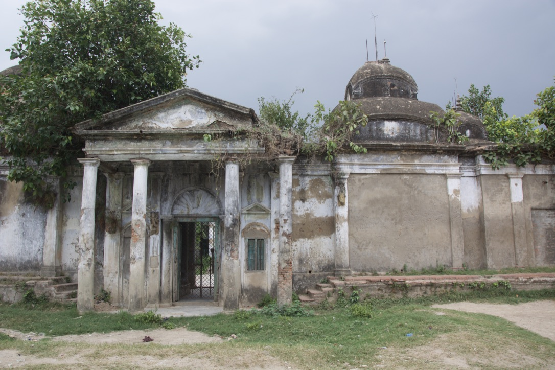 The entrance to Choto Rasbari in Tollygunge.